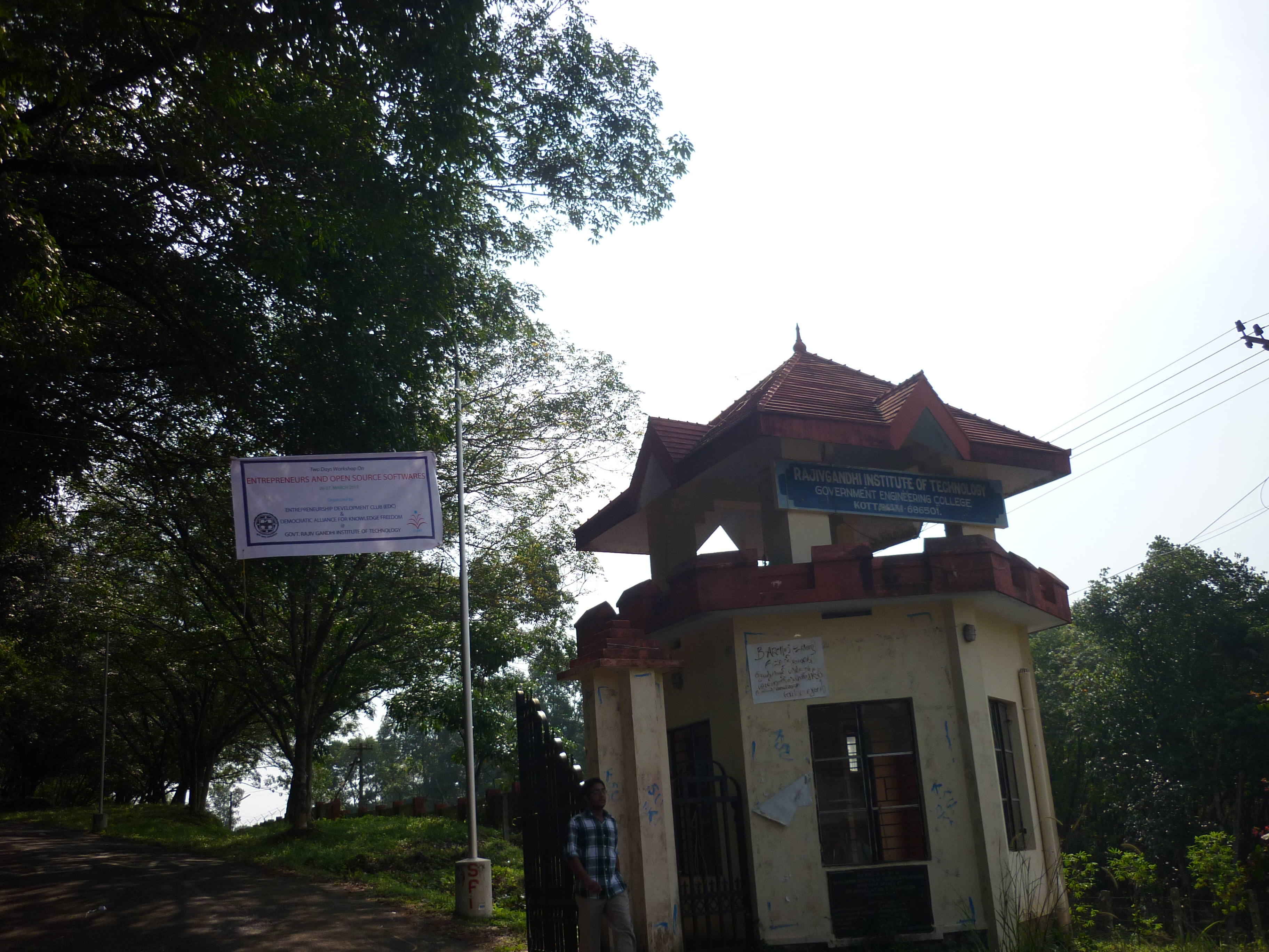 Rajeev Gandhi Institute of Technology, Govt. Engineering College Kottayam, Kerala, India